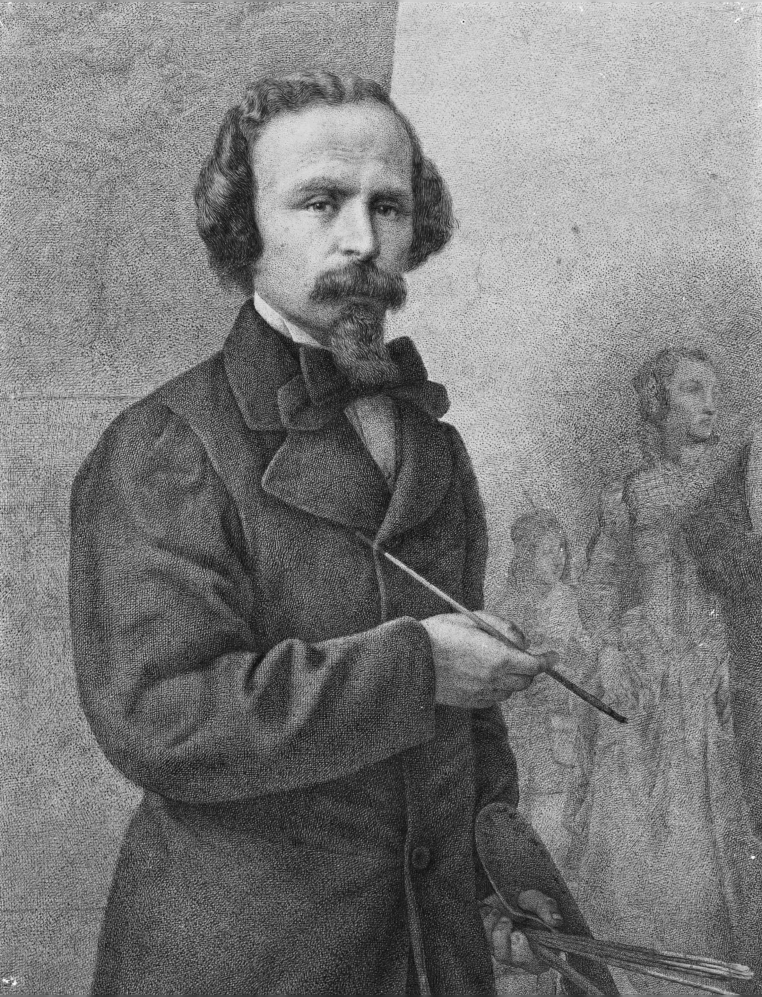 Francesco Coghetti (1802-1875) - Self portrait pencil and white on paper 50 x 39 cm